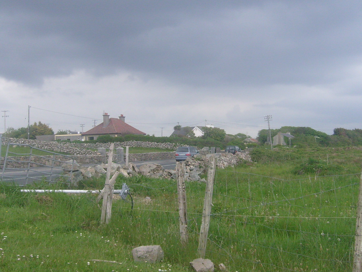 Na Forbacha, Co Galway, Éire